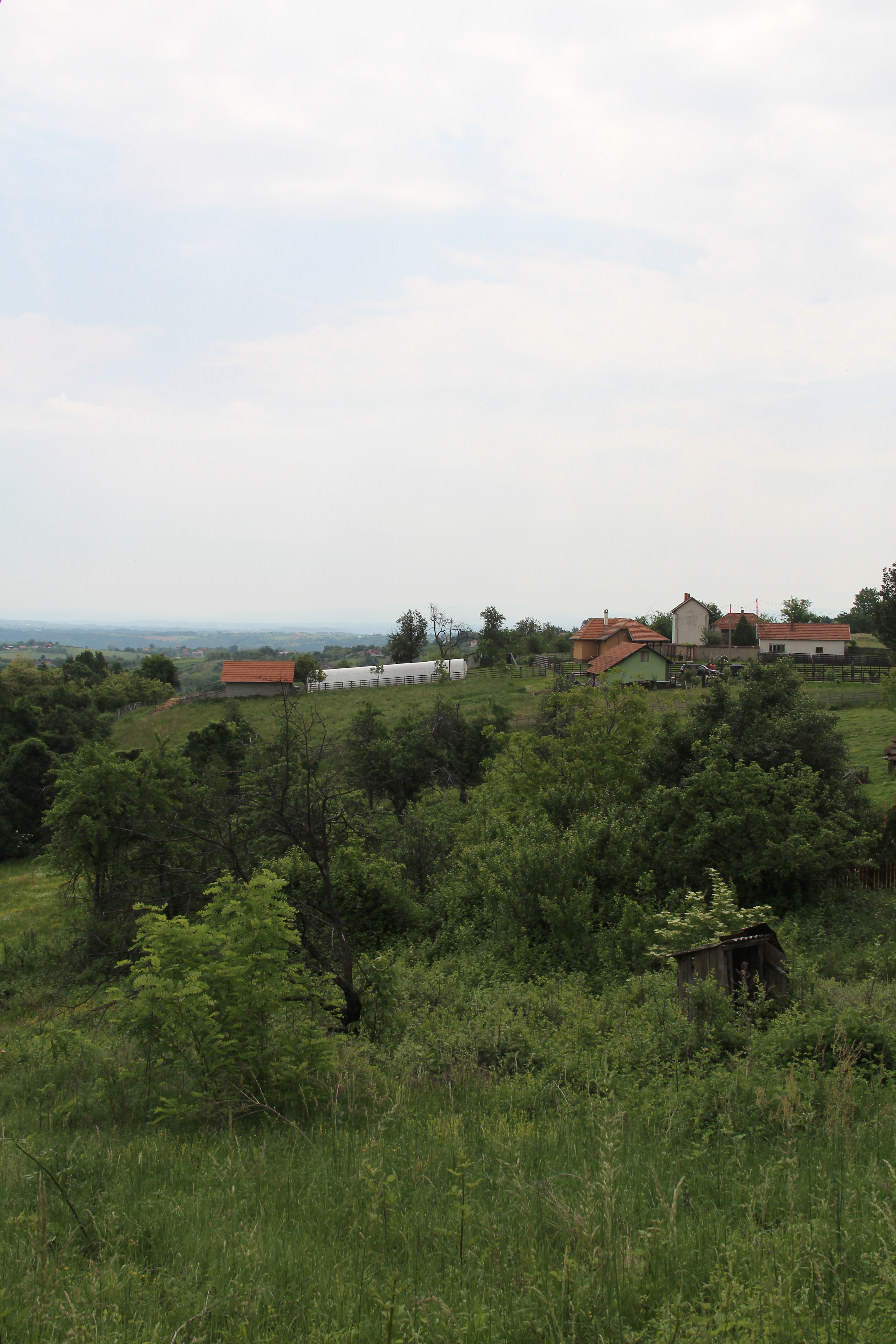 Kotešica village - Municipality of Valjevo - Western Serbia - Panorama 1